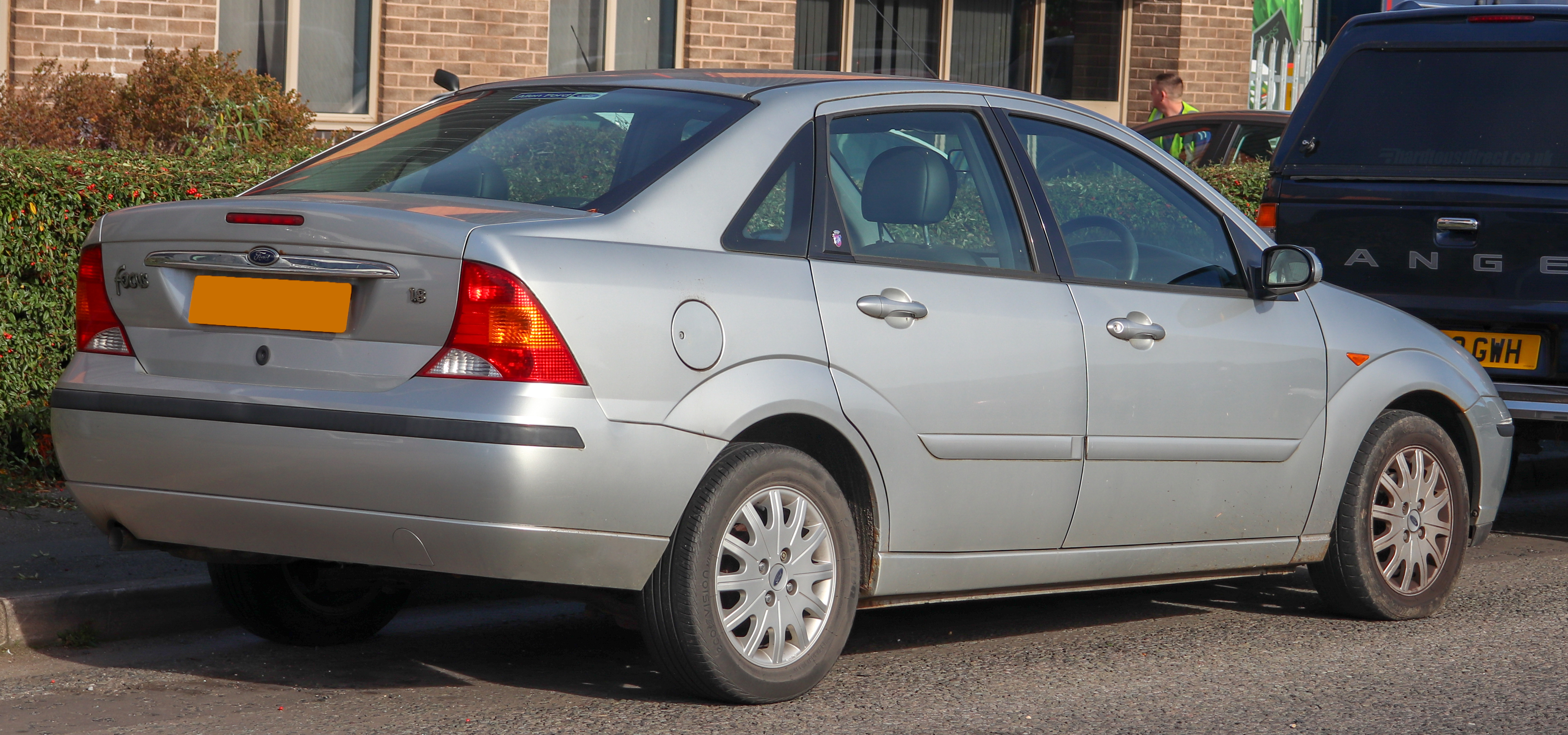 2002 Ford Focus Ghia Saloon 1.8 Rear Taken in Leamington Spa